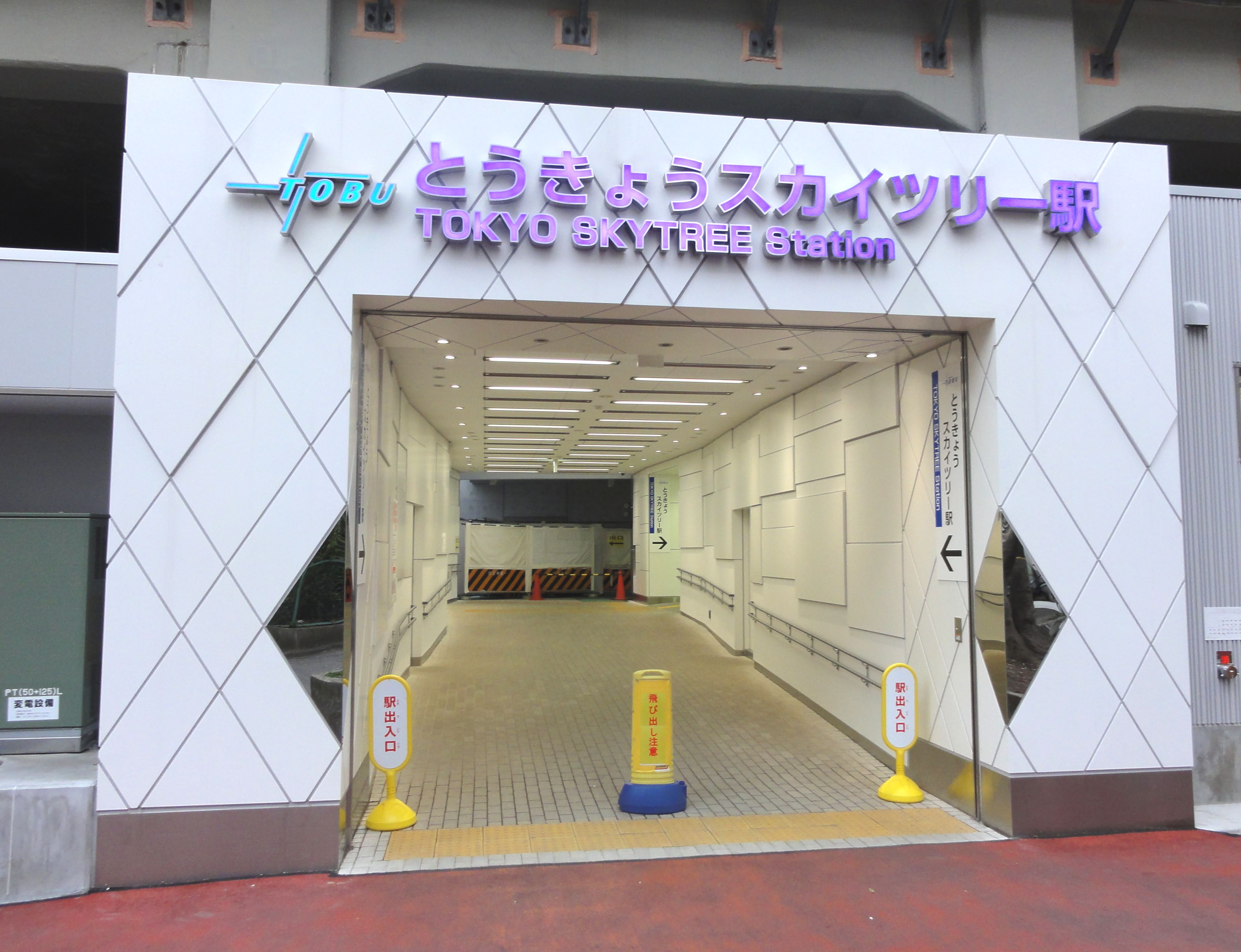 Tokyo Skytree Station entrance